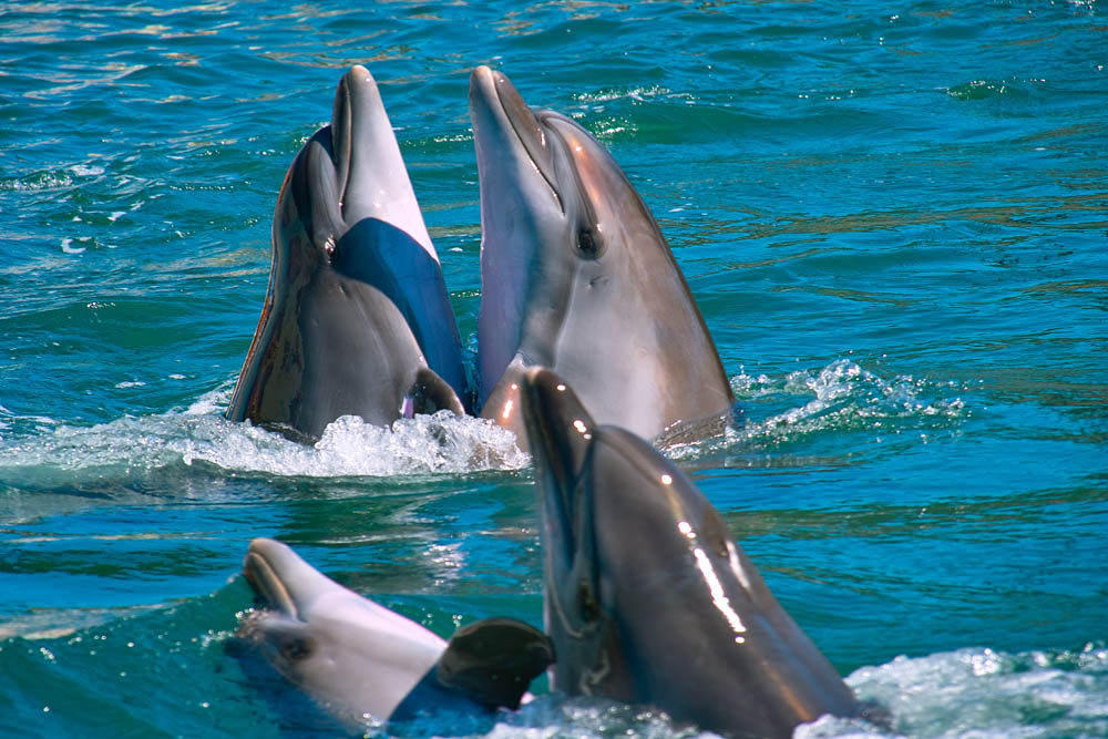 Dance of dolphins